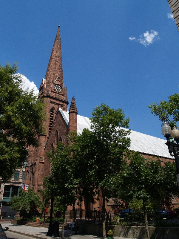 Grace Church, Westminster Street, Providence, Rhode Island